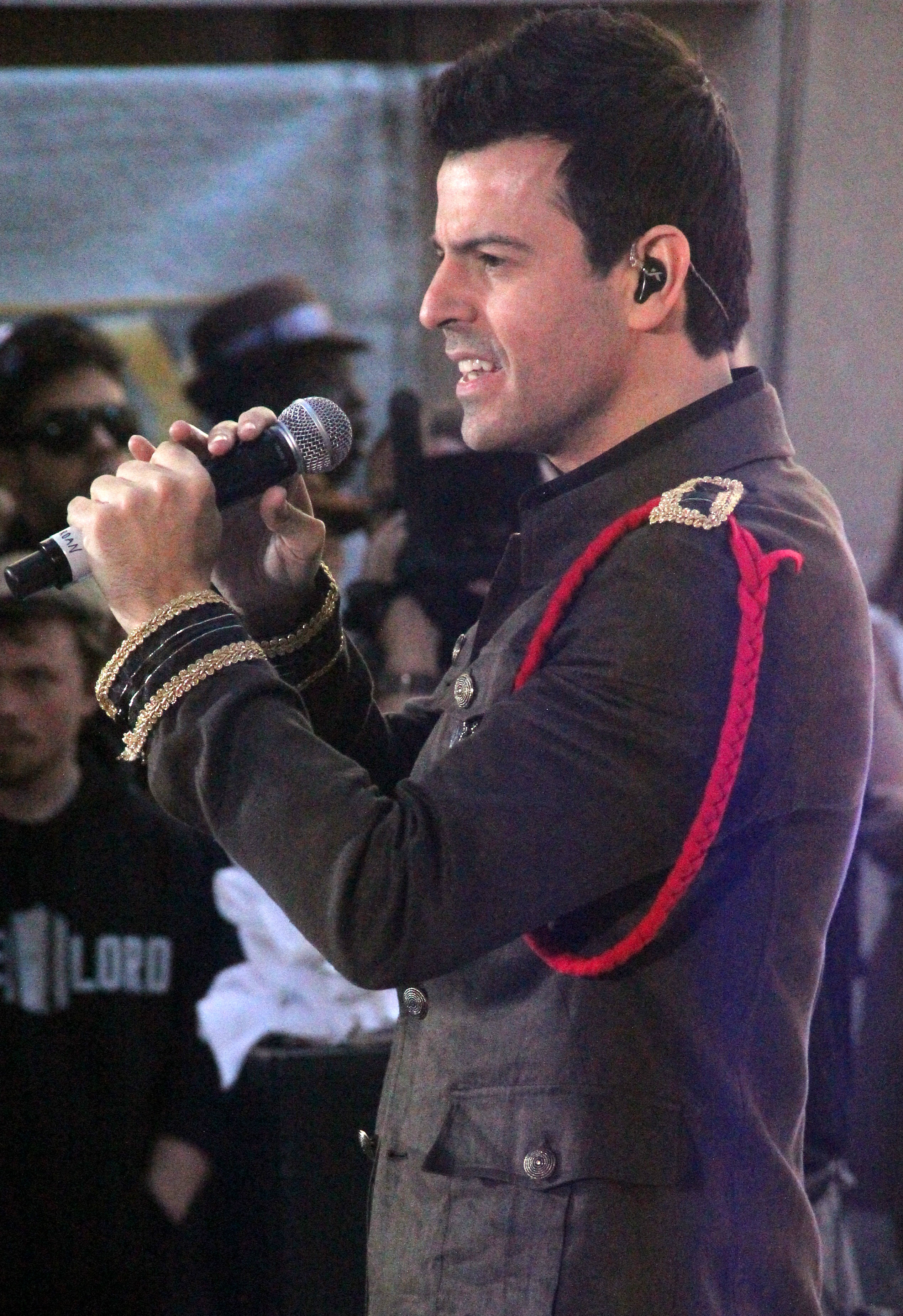 Jordan Knight at the The Today Show in New York City in June 2011